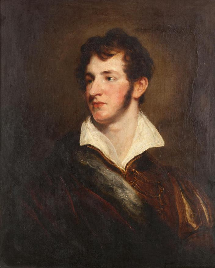 Portrait of the artist Philip Corbet (1802-1877)